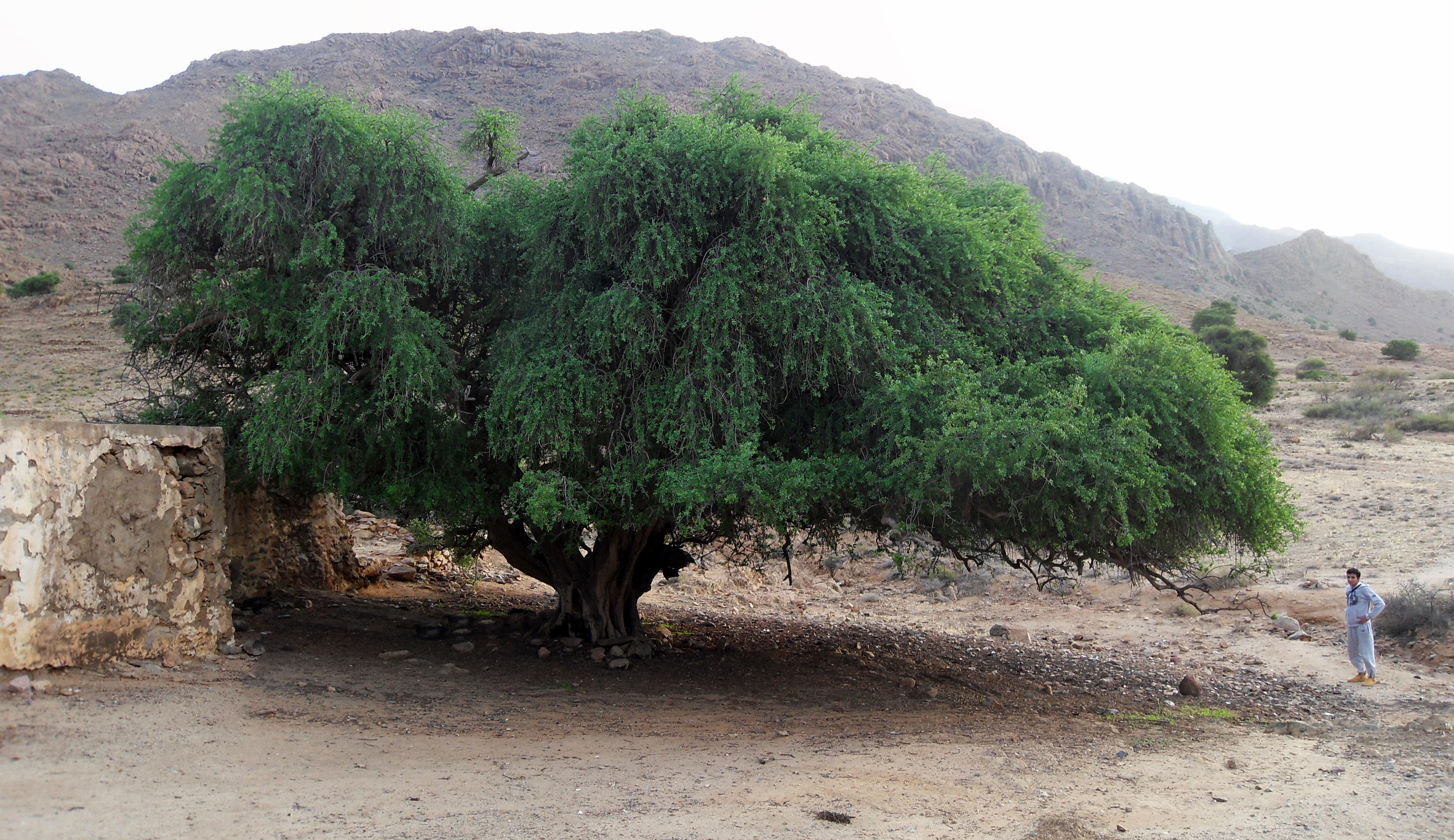 Argan Tree